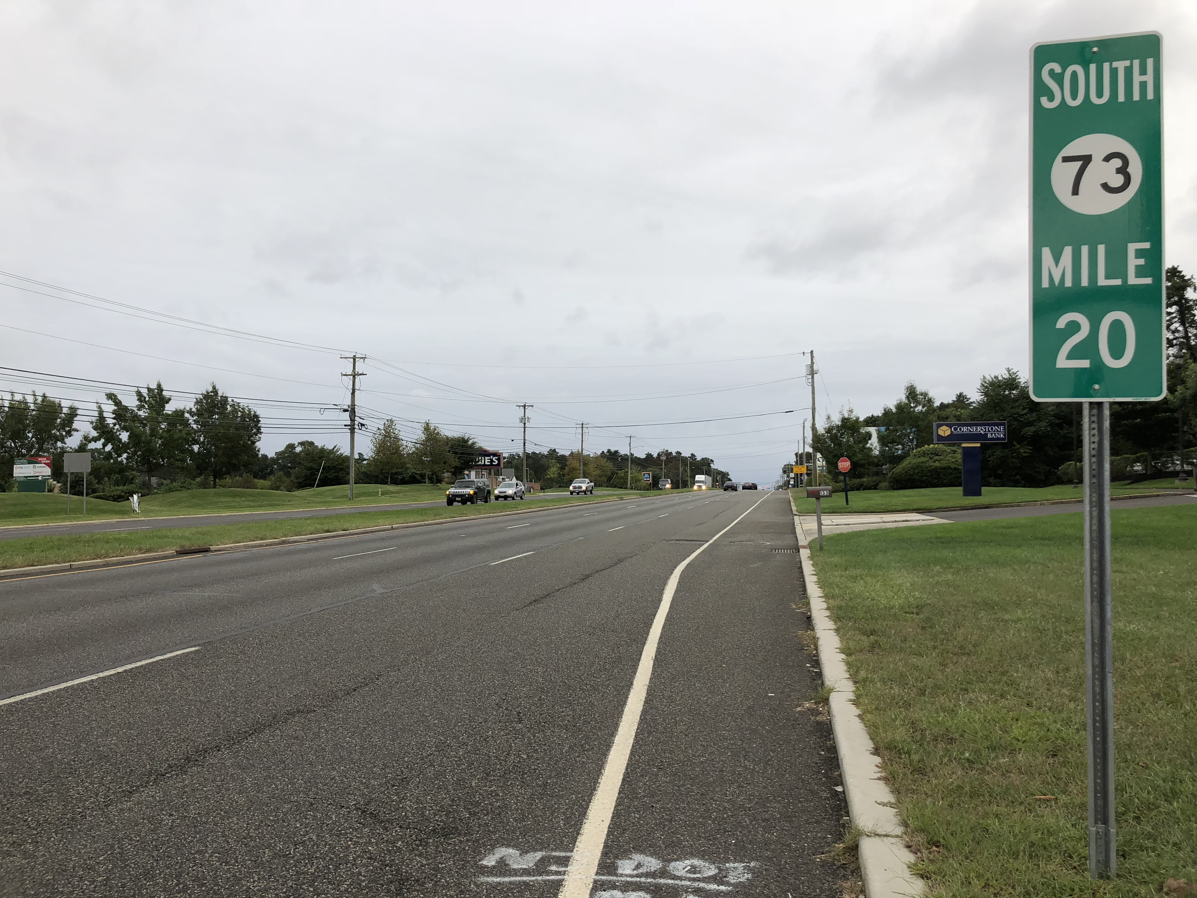 View south along New Jersey State Route 73 just south of Bowman Drive in Voorhees Township, Camden County, New Jersey